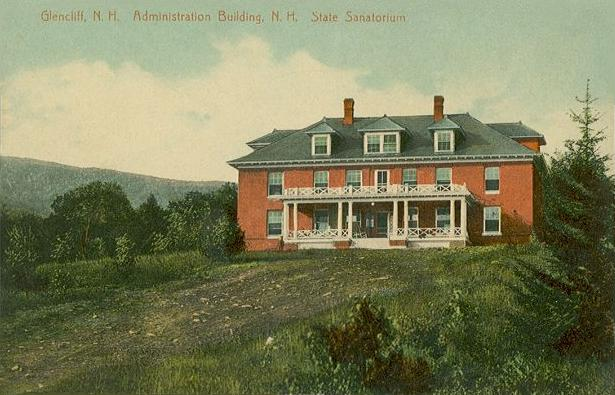 State Sanatorium Administration Building, Glencliff, NH; from a 1909 postcard.